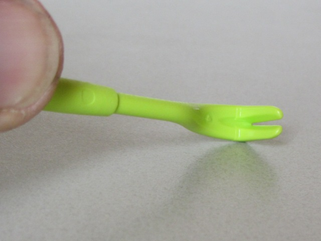 Instrument to remove ticks